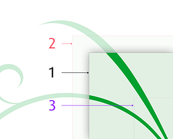 Image showing the bleed, margin, and cut lines on a print job.